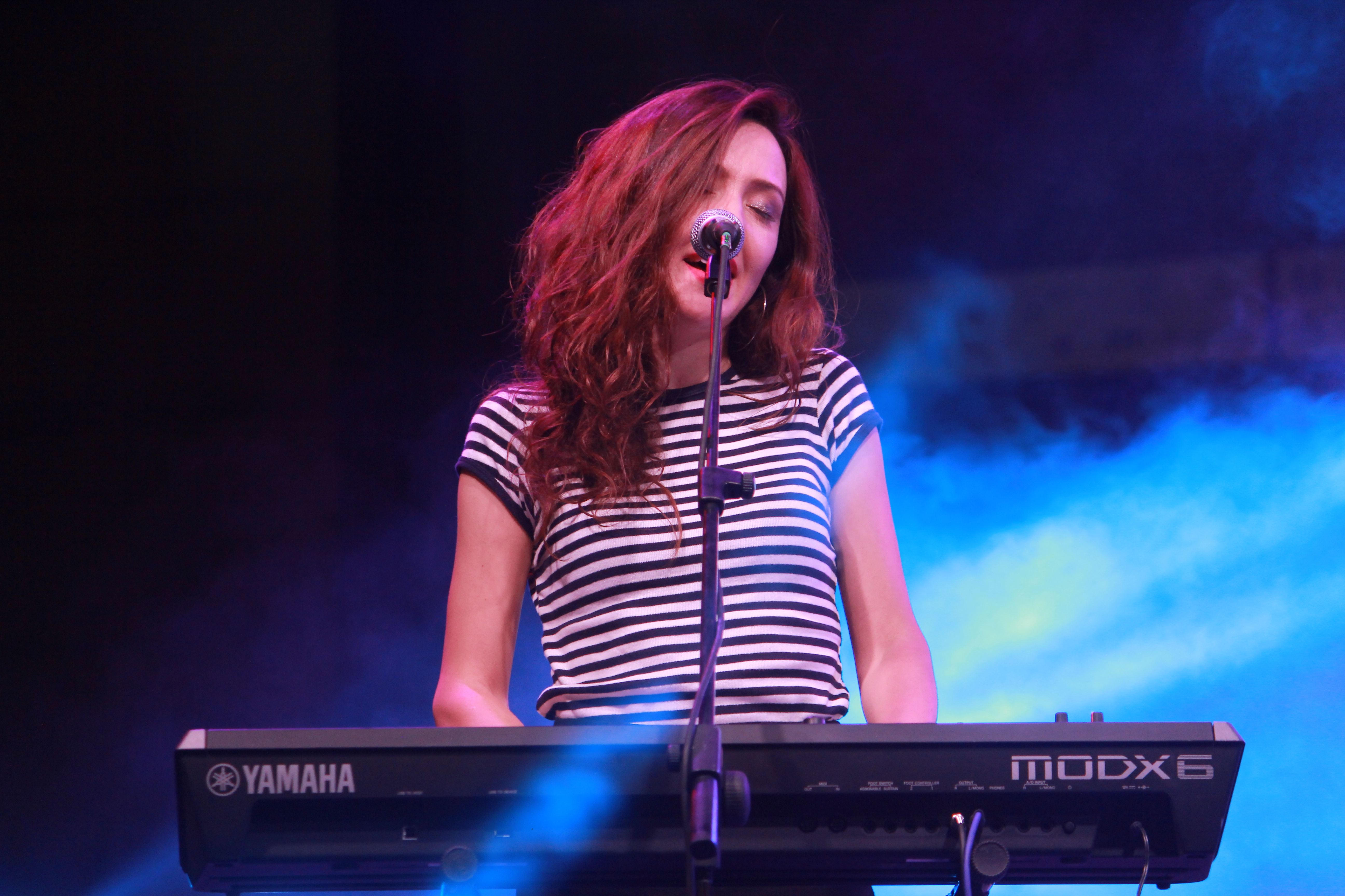 "Armenia in Rock" Festival at Freedom Square